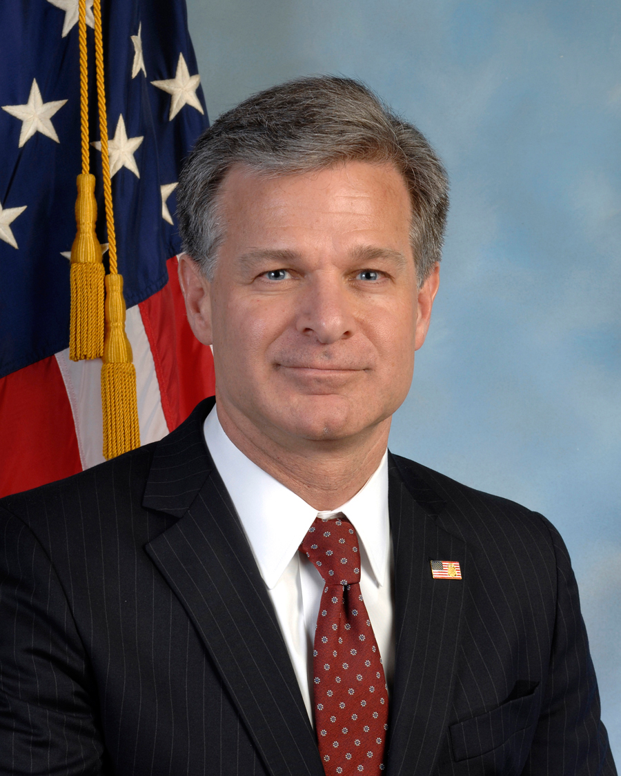 Christopher A. Wray, FBI Director, official photo